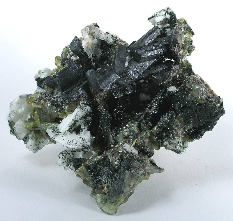 Rutile, Titanite, Albite Locality: Alchuri (Alchori; Aschudi), Shigar Valley, Skardu District, Baltistan, Northern Areas, Pakistan (Locality at ) Size: 9.8 x 8.7 x 3.1 cm. This is a bizarre Pakistani specimen, quite different from any rutile I have seen before from this region. It is a very aesthetic piece with a crosshatched cluster of pipe-like (for lack of a better word) rutile crystals that runs along the plate of albite and green titanites, like irrigation pipes with a few outlets sticking up here and there. Ex. Richard Kosnar Collection (he specialized in minerals of the world's alpine type deposits).